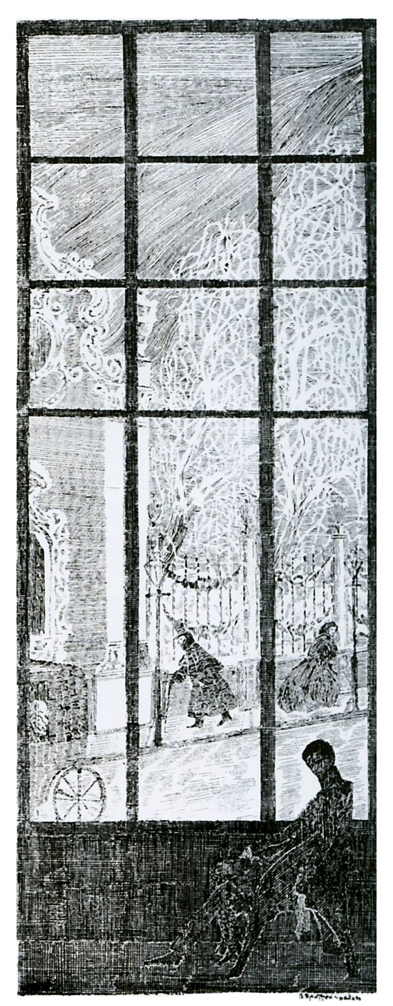 Vladimir Drittenpreis. Headpiece of the cycle of poems by K. Balmont "The Round dance of Times". February. circa 1908-1909.